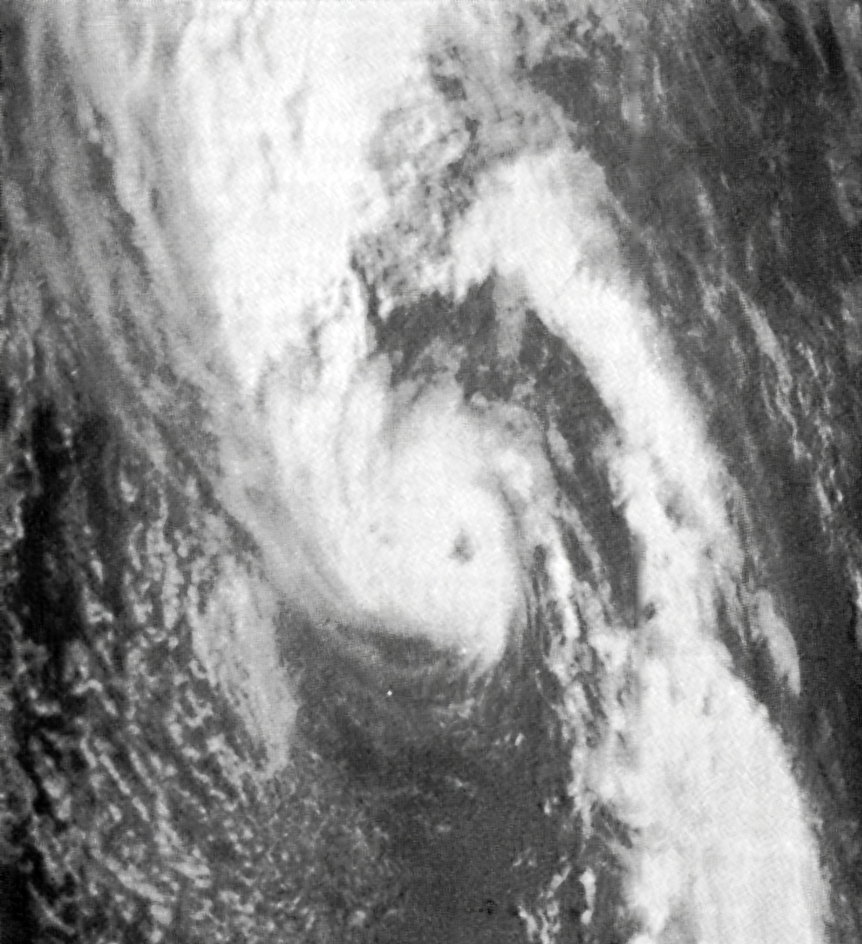 Unnamed Hurricane near peak intensity